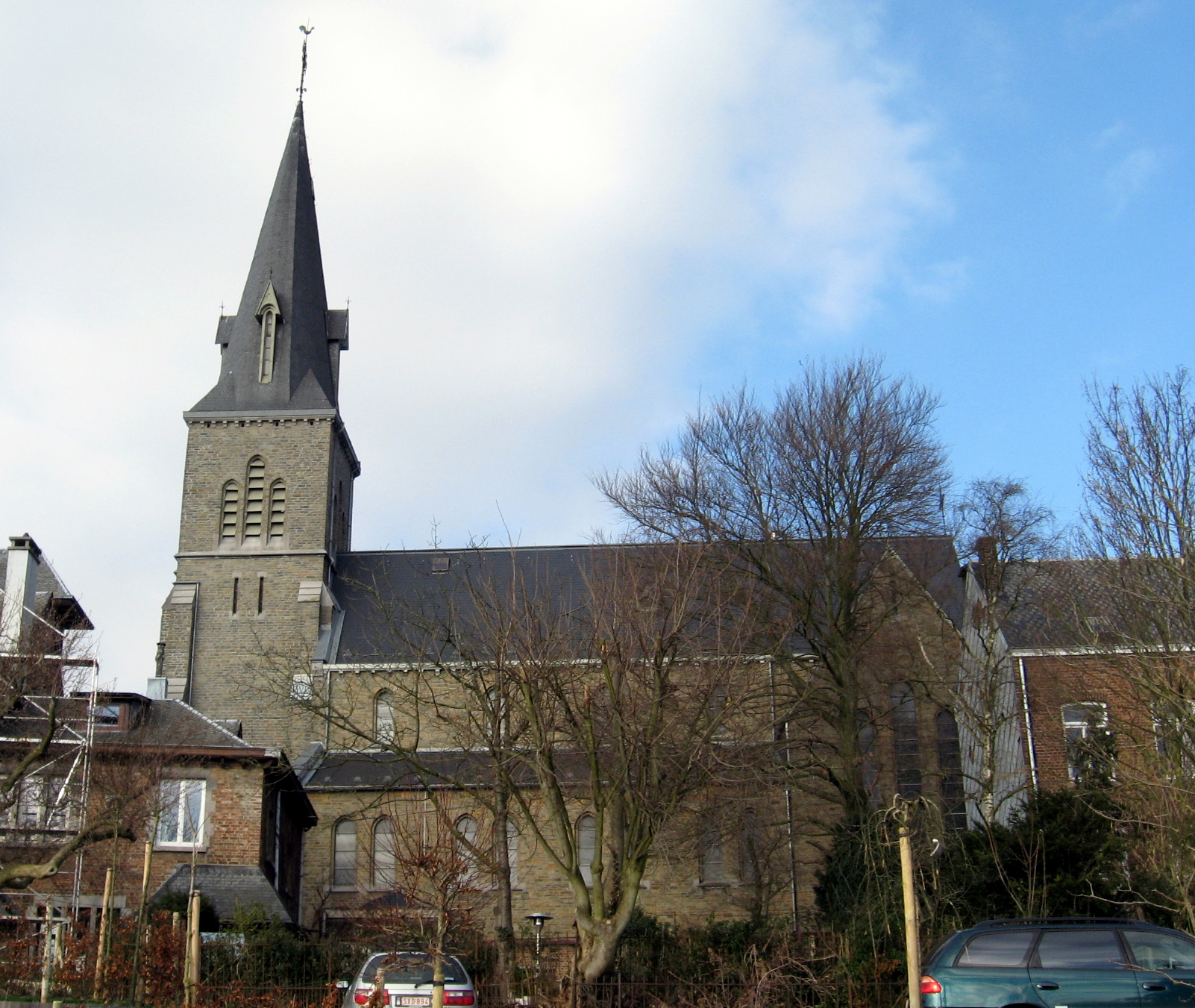 Church of Saint Bernard in Lambermont, Verviers, Liège, Belgium